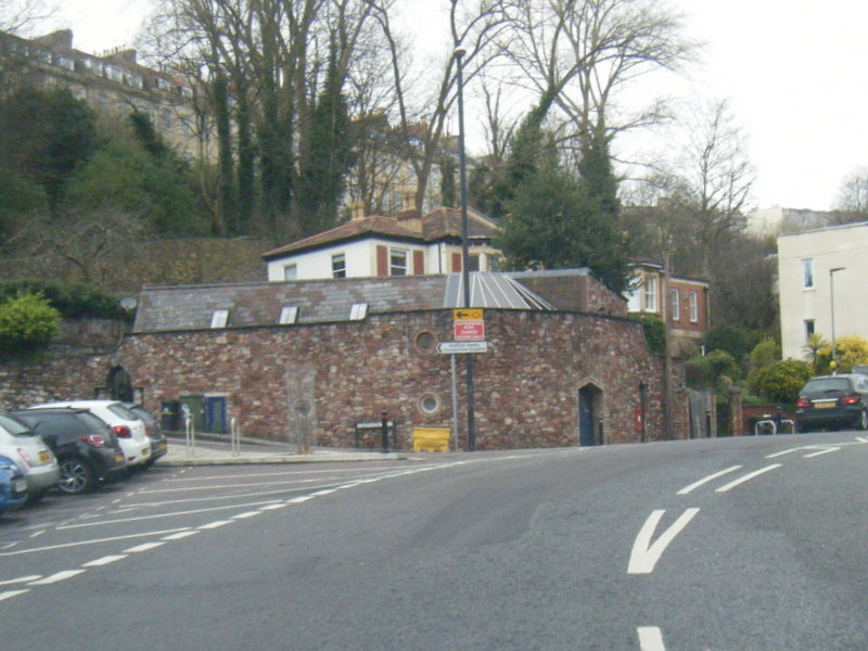 Photo of the building on the corner of Jacob's Wells Road and Constitution Hill in Bristol, England